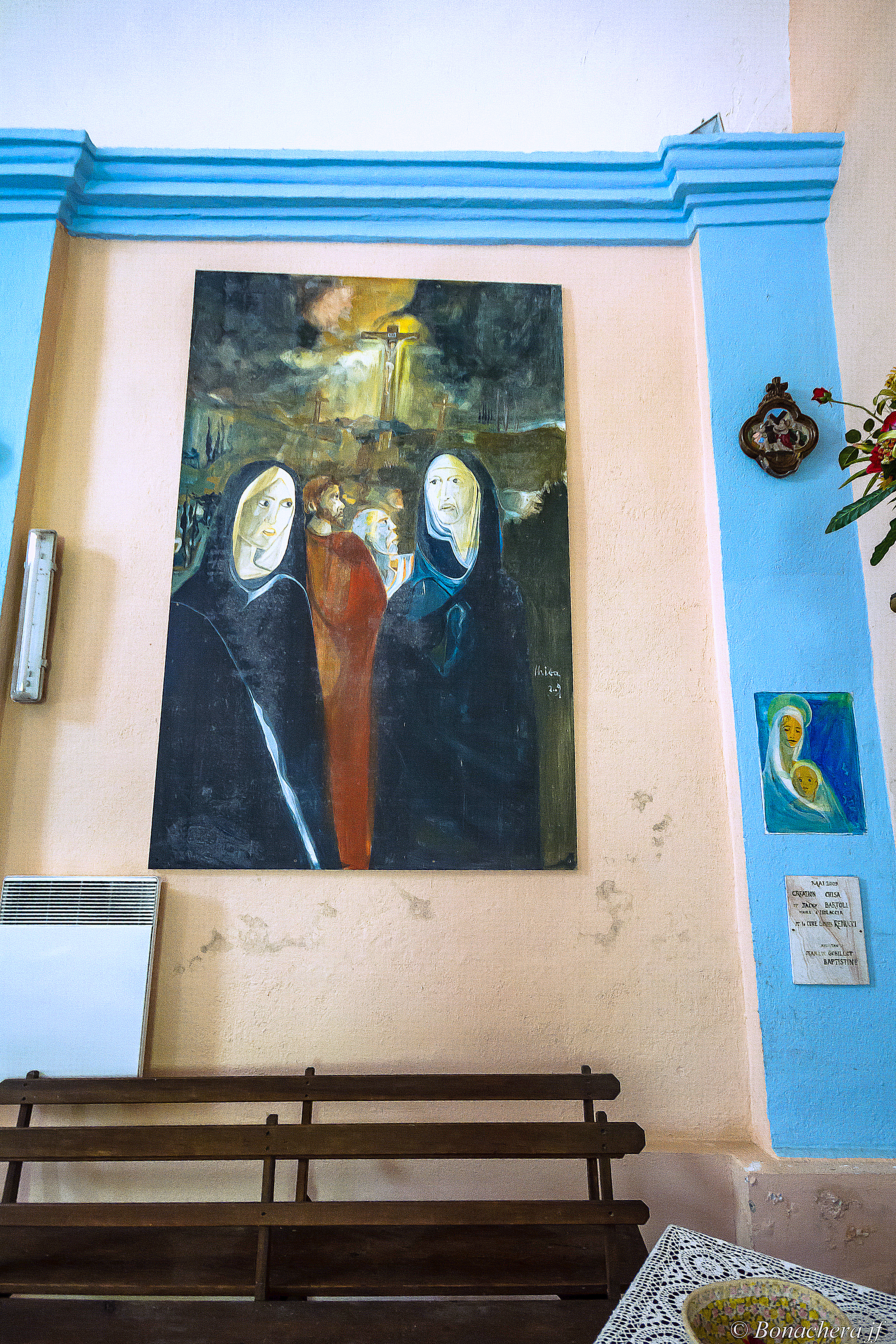 Eglise de Pietrapola tableau du peintre Chisa